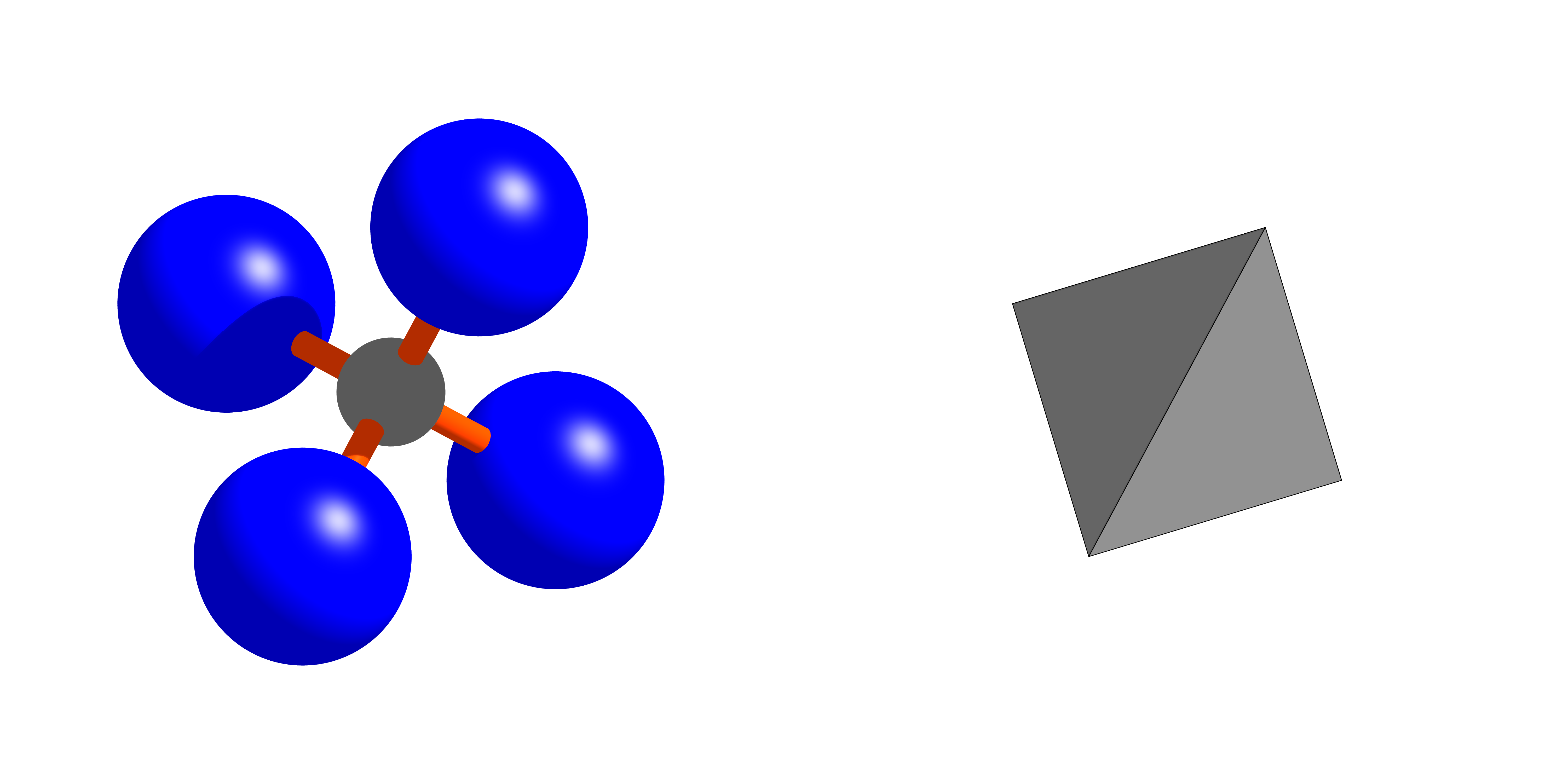 Mayenite structure: Aluminium (red) in tetrahedral coordination (blue: O1); Atome left and coordination polyhedra right Data from: Tomoyuki Iwata, Masahide Haniuda, Koichiro Fukuda (2008): Crystal structure of Ca12Al14O32Cl2 and luminescence properties of Ca12Al14O32Cl2:Eu2+, Journal of Solid State Chemistry 181, pp. 51-55 Calculation of scene file: Larry W. Finger, Martin Kroeker, and Brian H. Toby, DRAWxtl, an open-source computer program to produce crystal-structure drawings, J. Applied Crystallography V40, pp. 188-192, 2007 Rendering: POVRAY